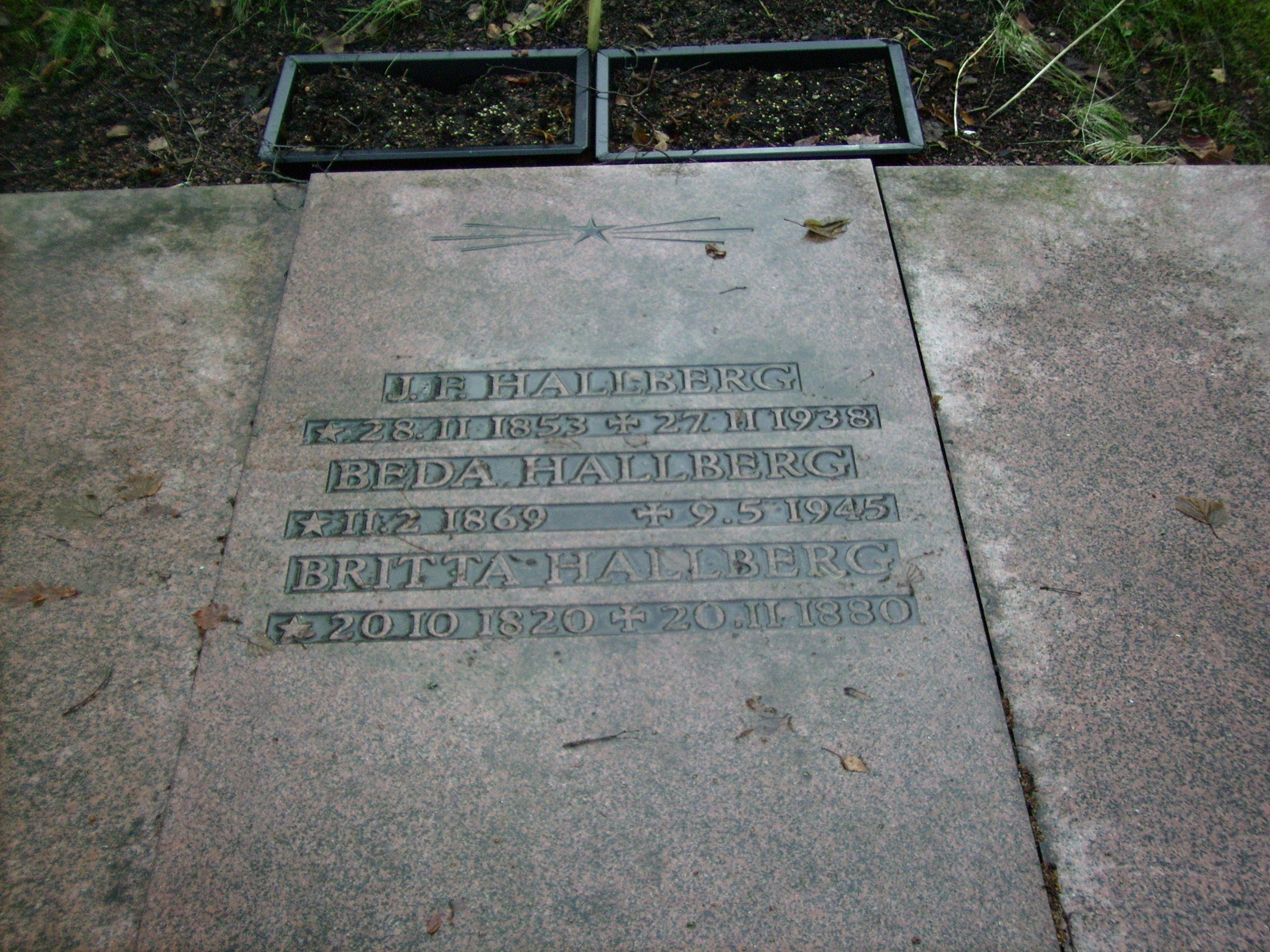 Beda Hallbergs grave in Gothenburg.